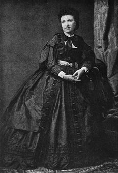 Marie Augustine Worth (1825–1898)